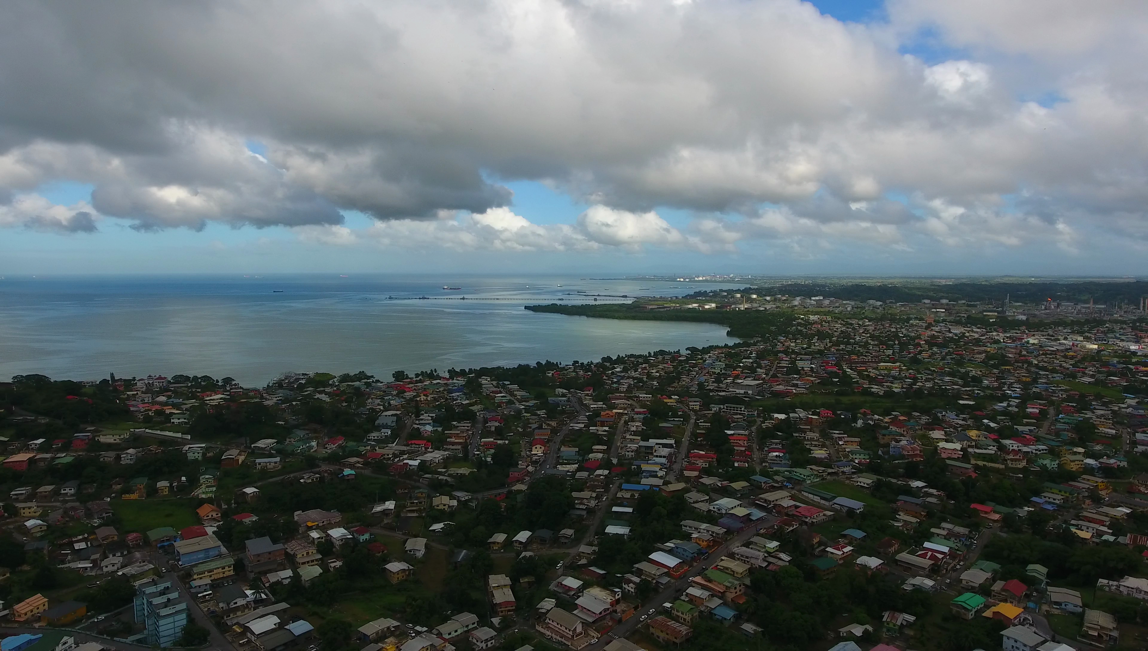 Marabella, San Fernando, Trinidad and Tobago. In the background: The industrial areas of Pointe-à-Pierre. Top left: The Gulf of Paria. Technically Marabella is not a part of San Fernando, but it's administred by Princes Town instead. It is generally considered to be a suburb of San Fernando though. Photo taken as part of the Southern Trinidad Aerial Photo Project, a small project sponsored by WMDE. Drone used: DJI Phantom 4. Snapshot taken from video footage via VLC.